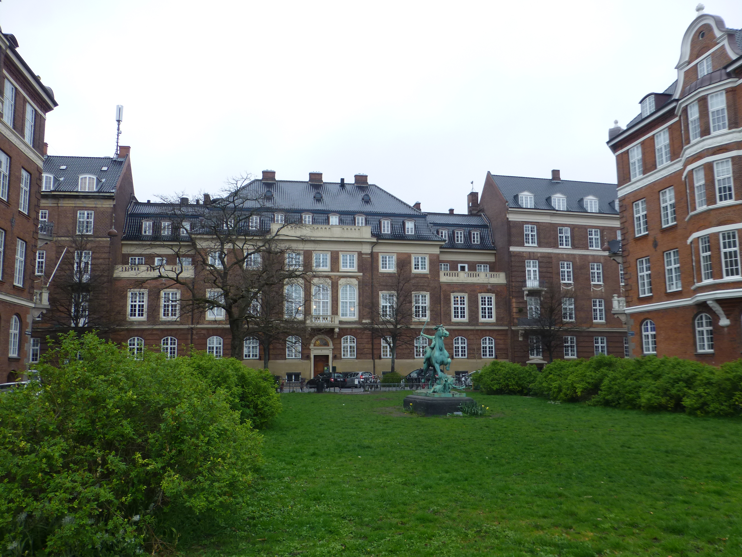 The square Trondhjems Plads in Østerbro in Copenhagen. The building in the middle is Domus Medica, former known as Det Plessenske Palæ. It was created by Gotfred Tvede.